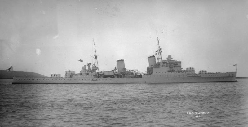 British cruiser HMS GLOUCESTER at anchor in Plymouth Sound.